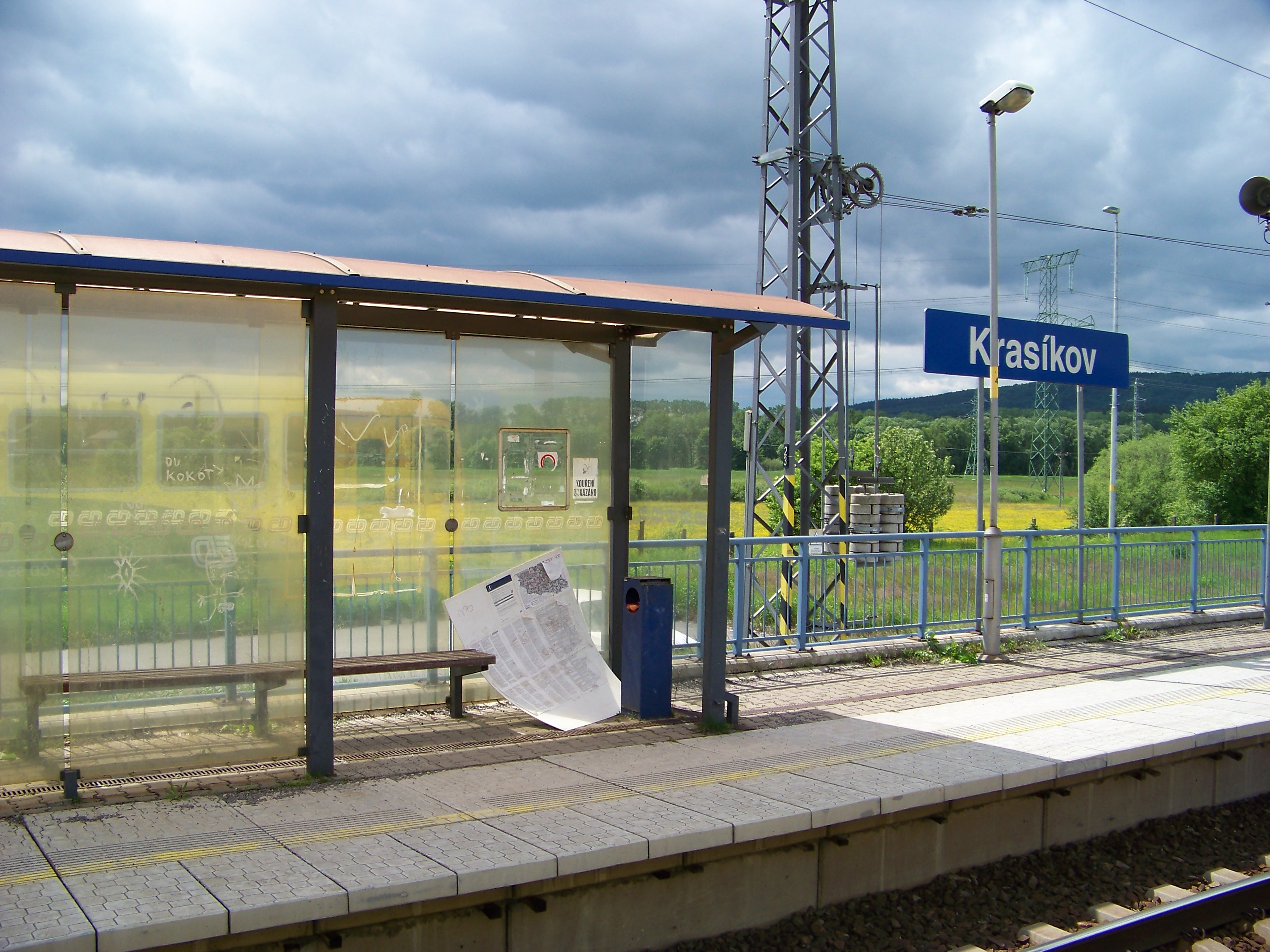 Krasíkov, Ústí nad Orlicí District, Pardubice Region. The train stop. - OpenStreetMap(Info)